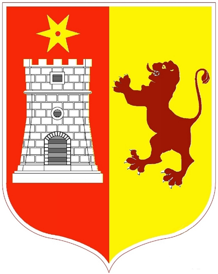 CAPITANIO OF MONOPOLI (BARI) ITALY